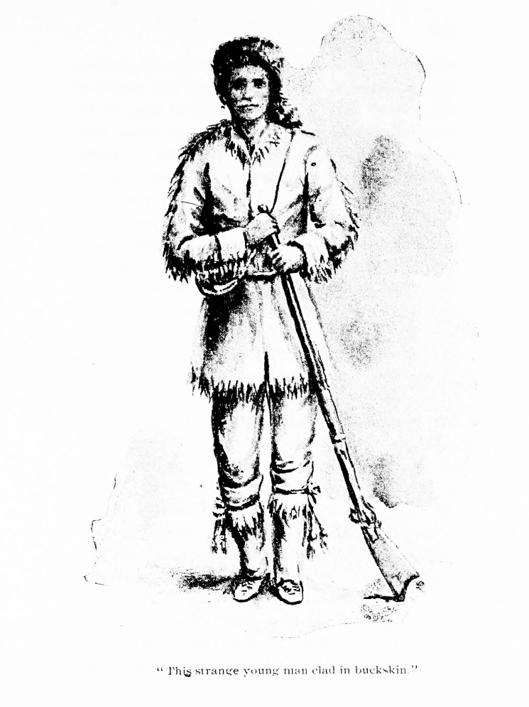 New York "Mountain Man" Nat Foster, around age 21 Other information Illustrations appear only in 1897 edition, not 1912. This illustration is missing from most online copies. "Digitized by Cornell University".